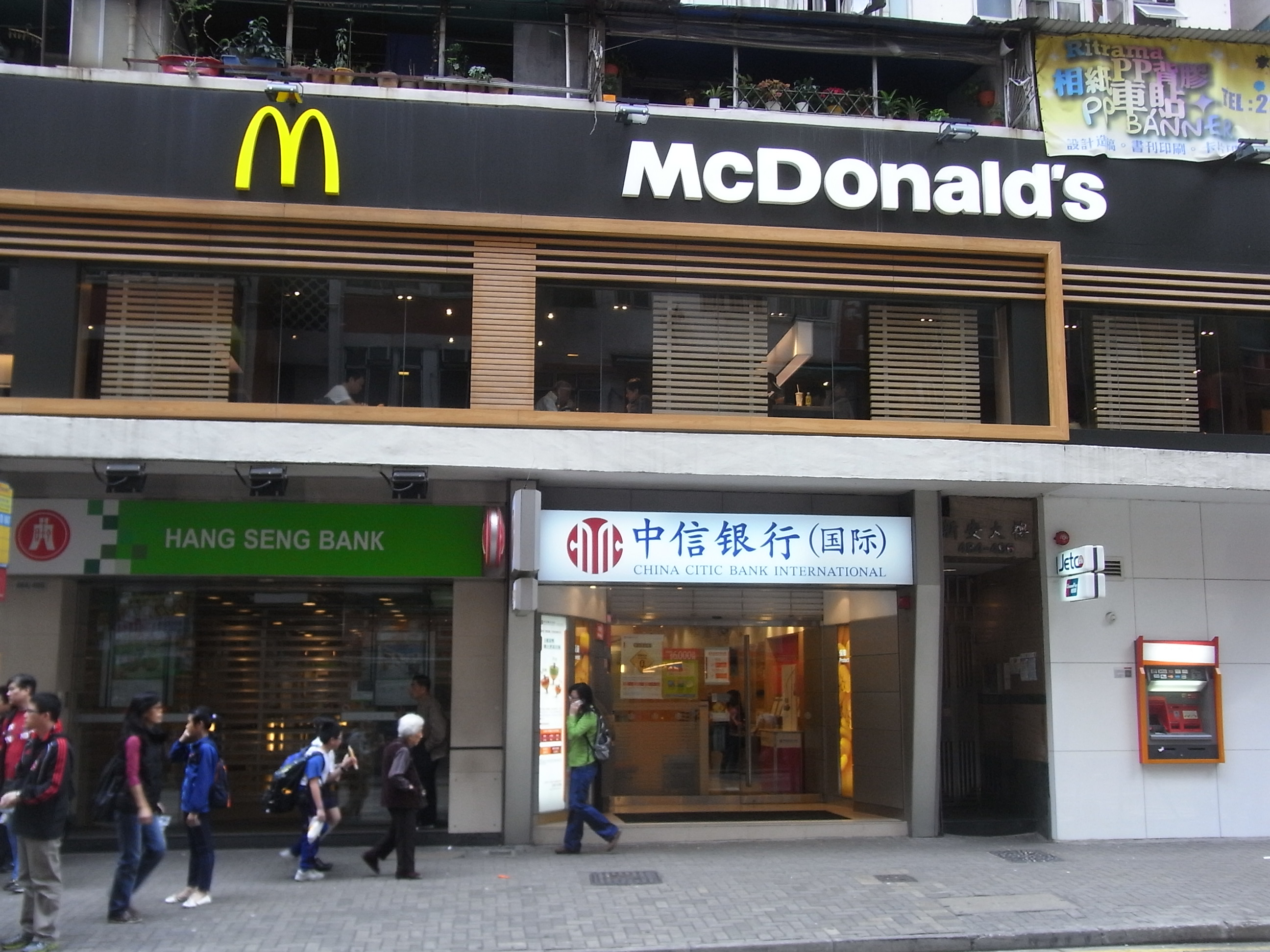 Queen's Road West, Shek Tong Tsui, Hong Kong